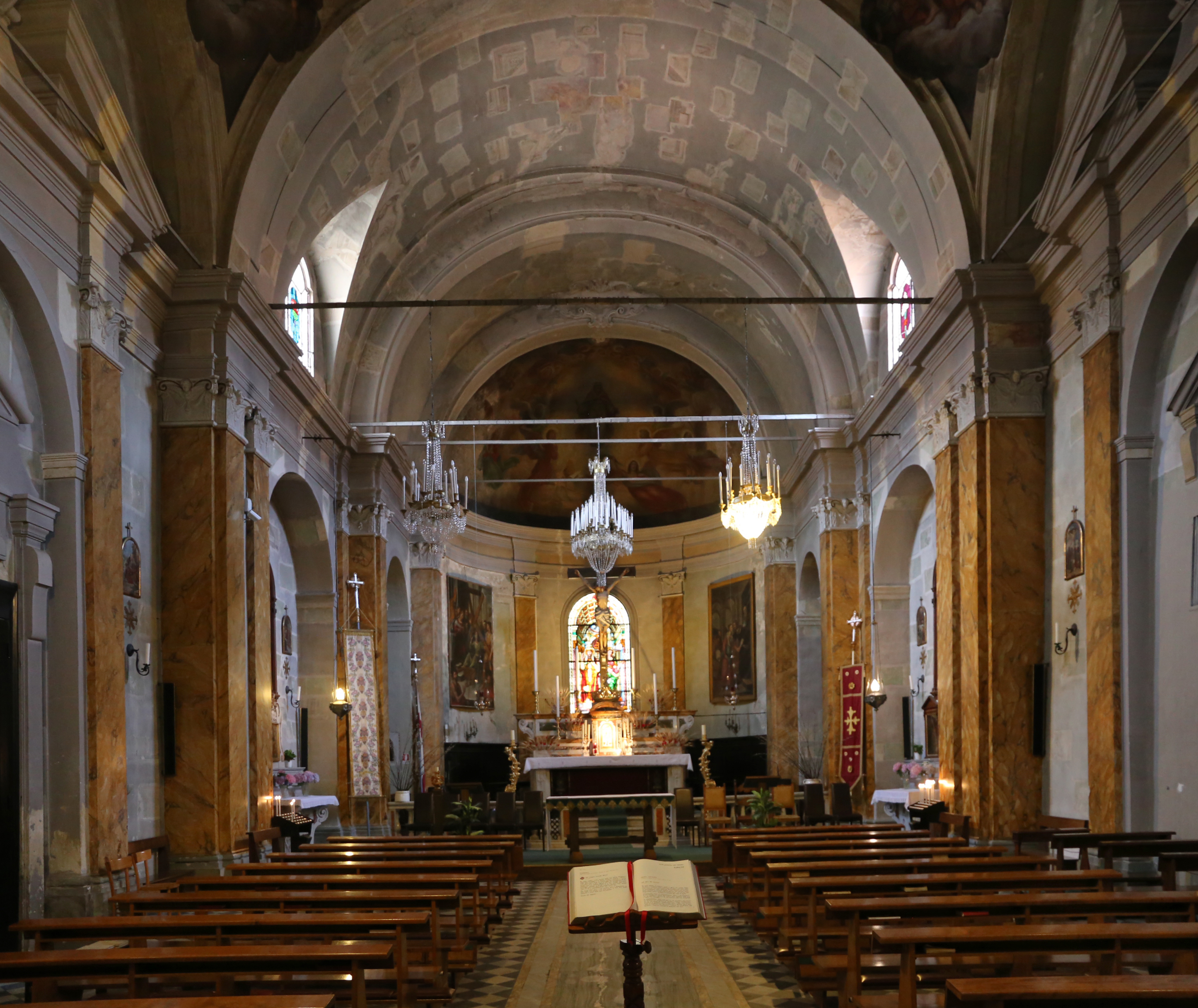 San Marcello (San Marcello Pistoiese)